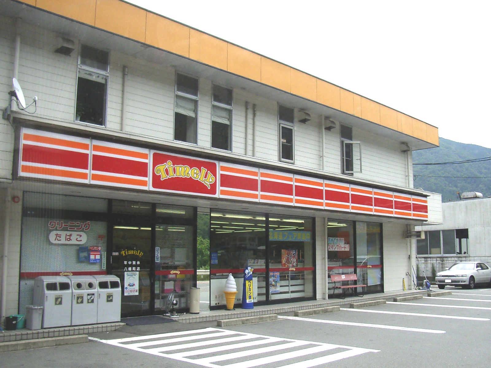 Photograph of Hachimancho Timely exterior, it is convenience store in Gujo City, Gifu Prefecture, this photo date is July 6, 2007.